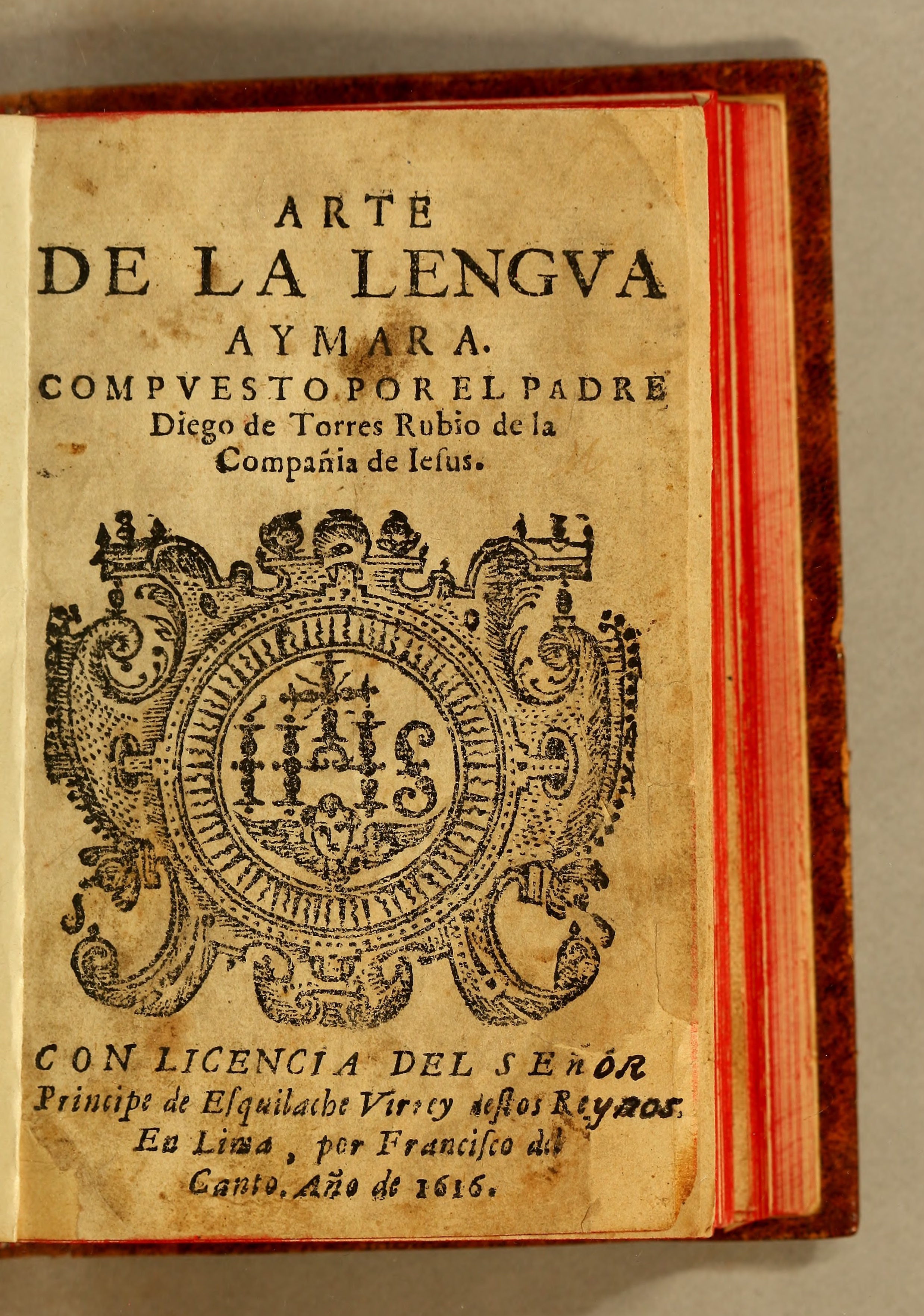 Title page of original 1616 edition of Arte de la lengua aymara by Diego de Torres Rubio